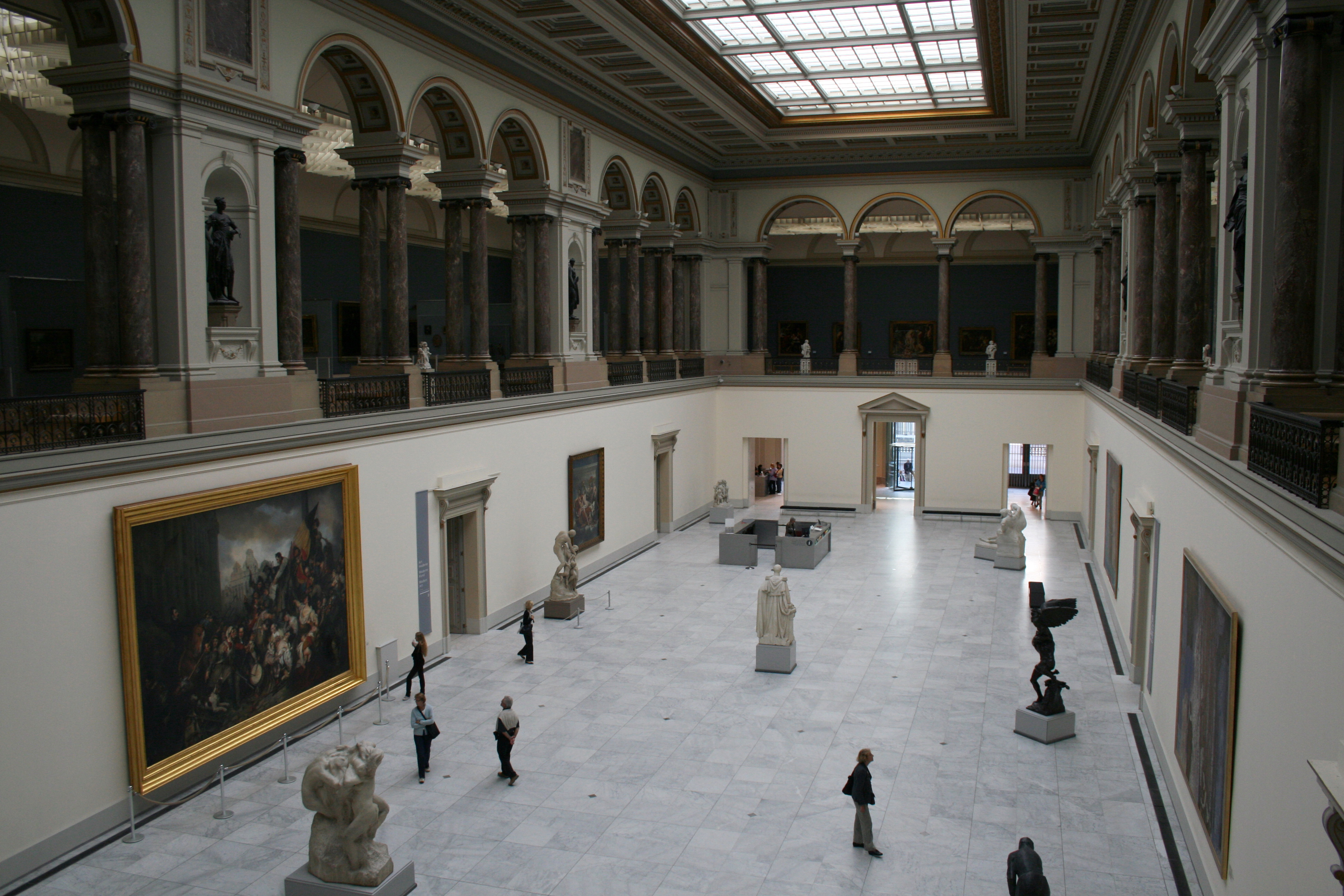 Main Hall of the Royal Museum of Fine Arts of Belgium, Brussels, seen towards the entrance